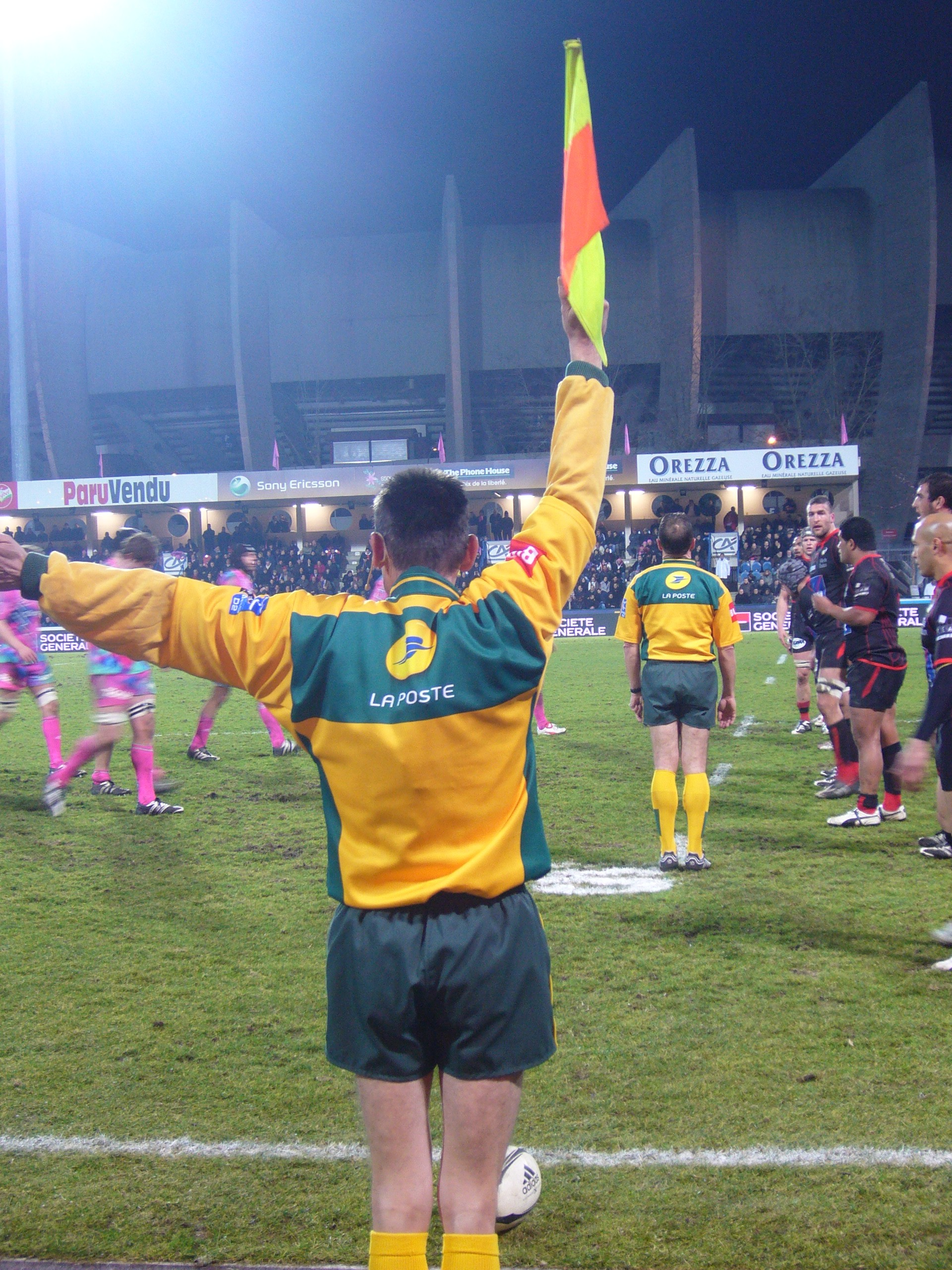 Top 14 (french rugby championship) Stade Français 22-12 Toulon